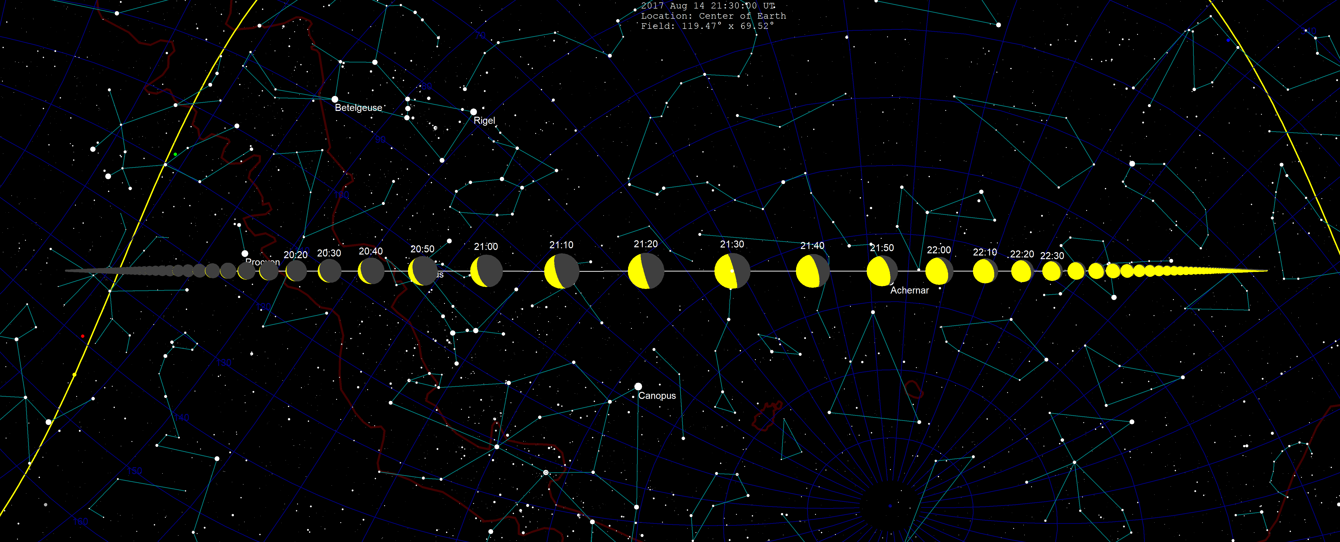 flyby on August 13, 2017, showing 10 minute movements past the earth and geosynchronous orbits in green